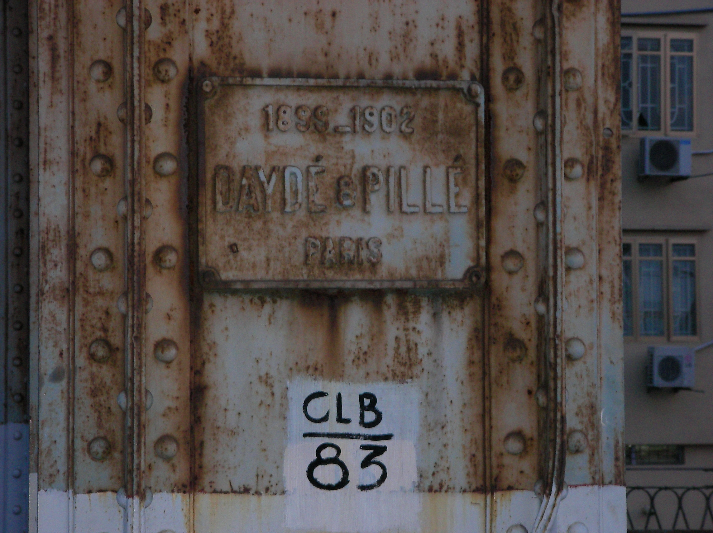 A panel on Long Bien bridge showing the name of its contructor.